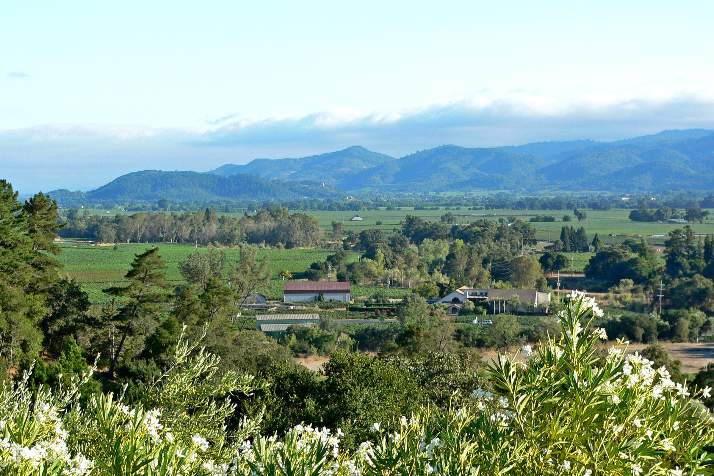 Photo of Napa Valley, California, looking south from Auberge du Soleil